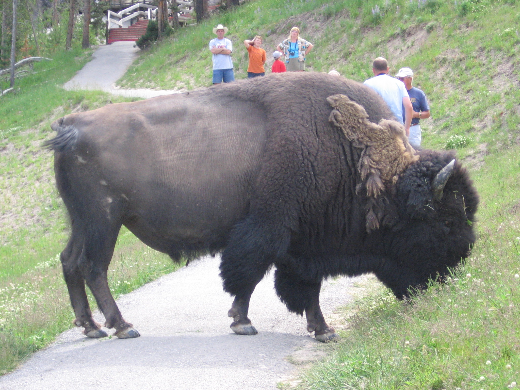 My photo from summer 2005.